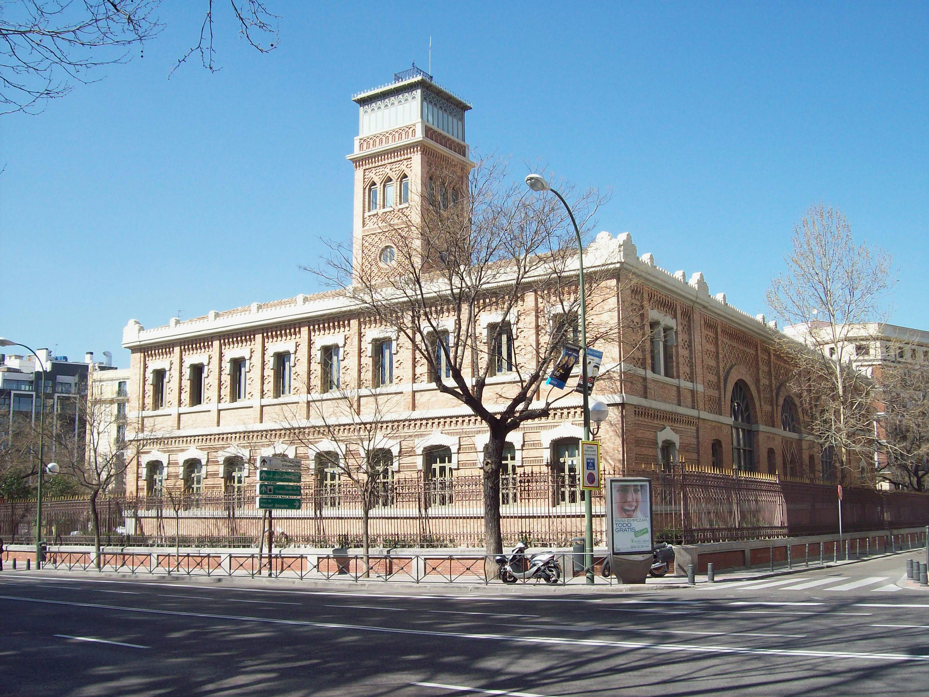 View of Casa Árabe ("Arab House") in Madrid (Spain) from Calle de O'Donnell (street).